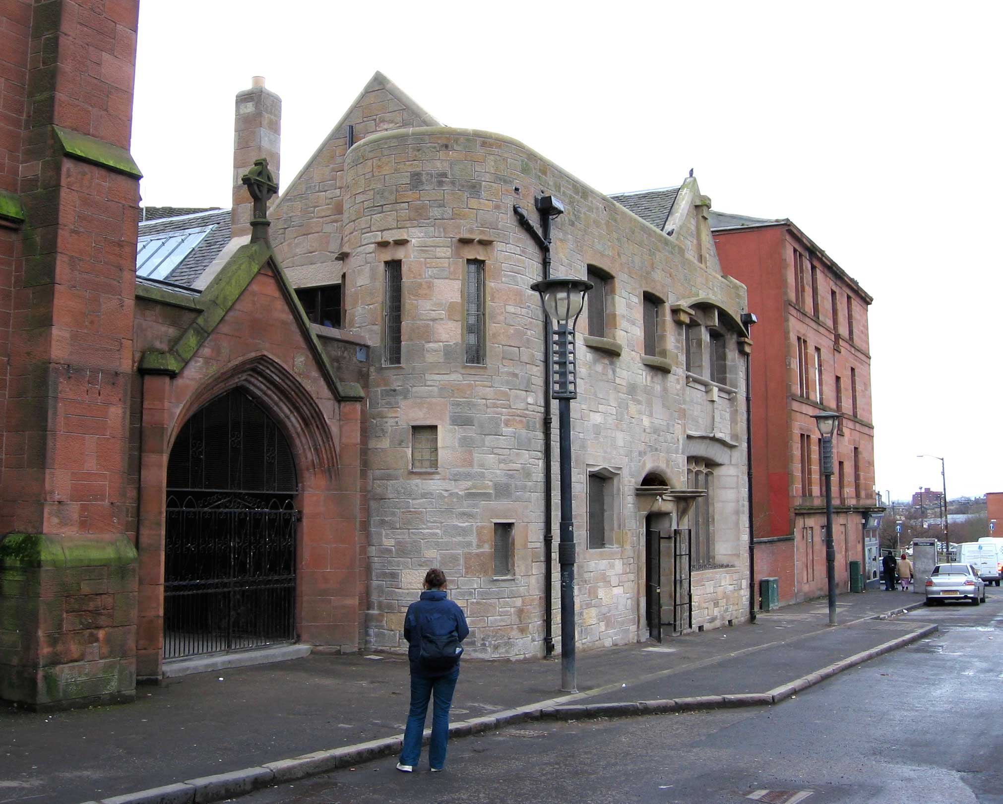 Ruchill Church Hall, Glasgow designed by Charles Rennie Mackintosh. photograph taken on 9 March 2006 by User:Dave souza. Any re-use to contain this licence notice and to attribute the work to User:Dave souza at Wikipedia.